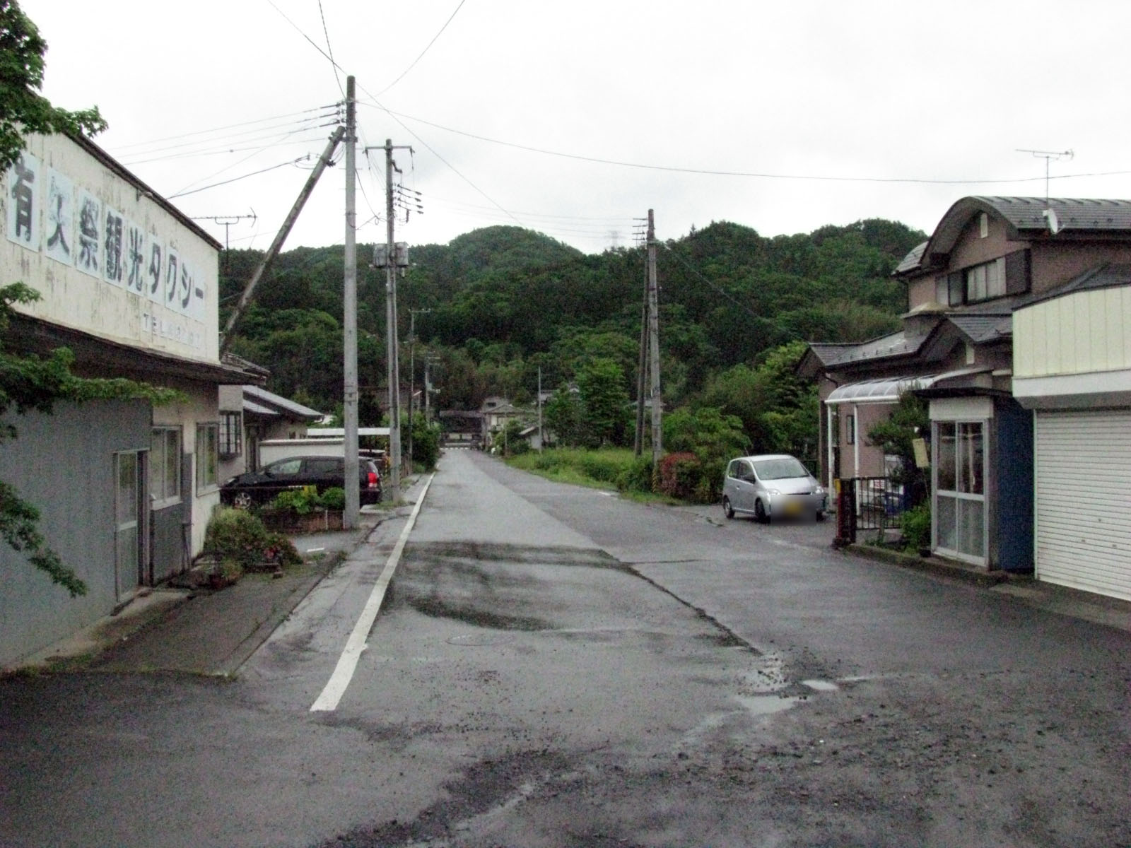 Iwaki-Ishii Station on Suigun Line